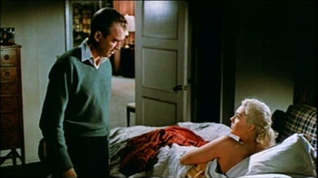 Screenshot from the original 1958 theatrical trailer for the film VertigoFrame taken from MPEG4. Note: This version of the original 1958 theatrical trailer is of significantly lower quality than the 1996 restoration theatrical trailer.